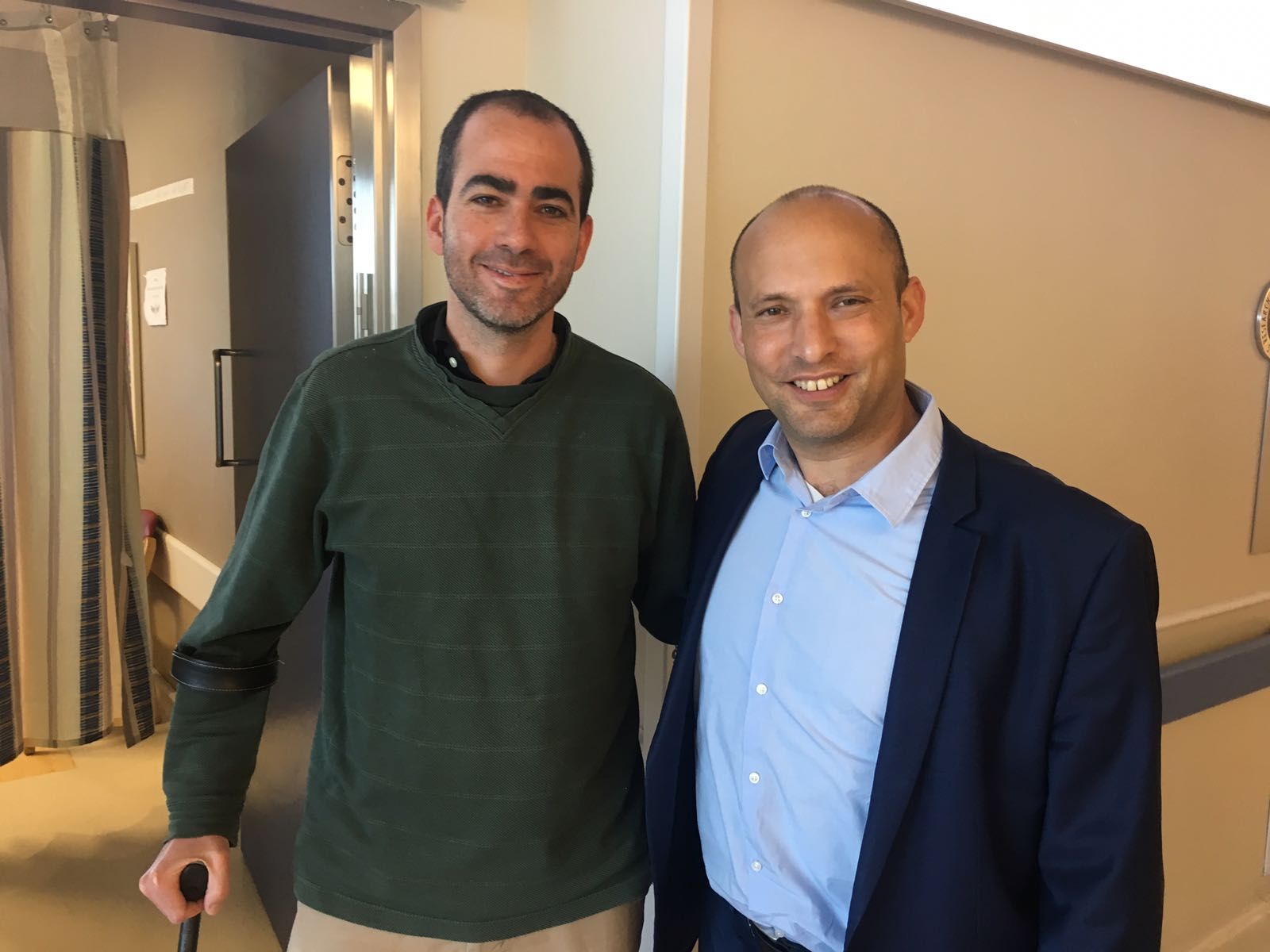 Naftali Bennett and Dr. Asael Lubotzky visiting a wounded soldier from Gaza